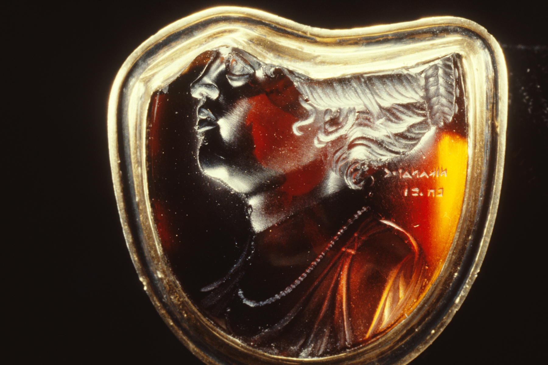 To ensure the safe return from battle of her husband, Ptolemy III, Berenike II dedicated her hair to the gods. After she cut it off, it reputedly became the constellation Berenice's Hair, near Leo.